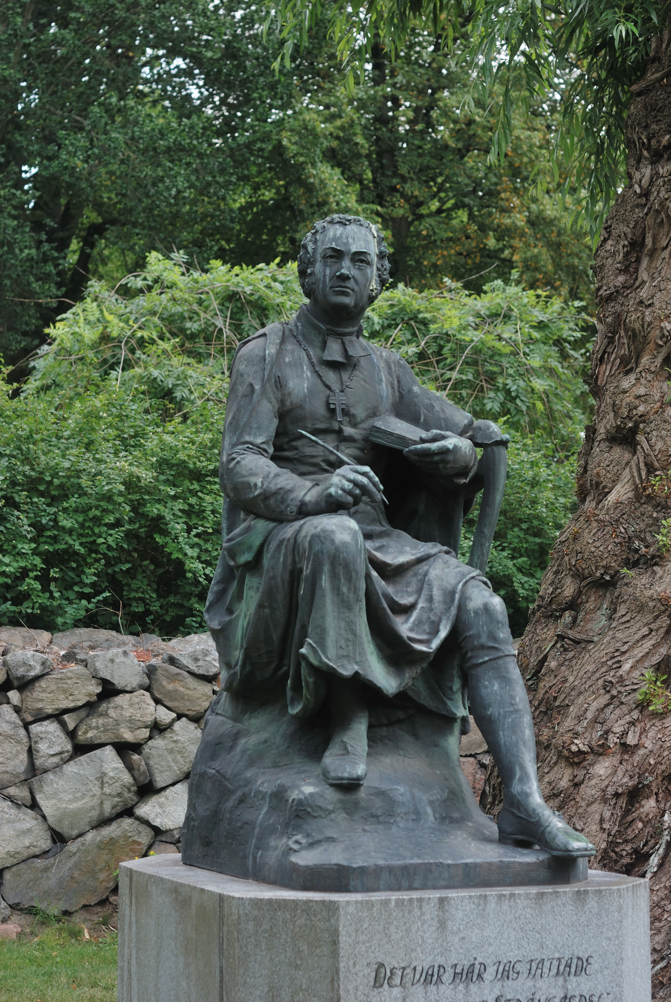 Sculpture of Johan Olof Wallin (1779-1839) close to Solna rectory. Artist Alfred Nyström (1844-1897).